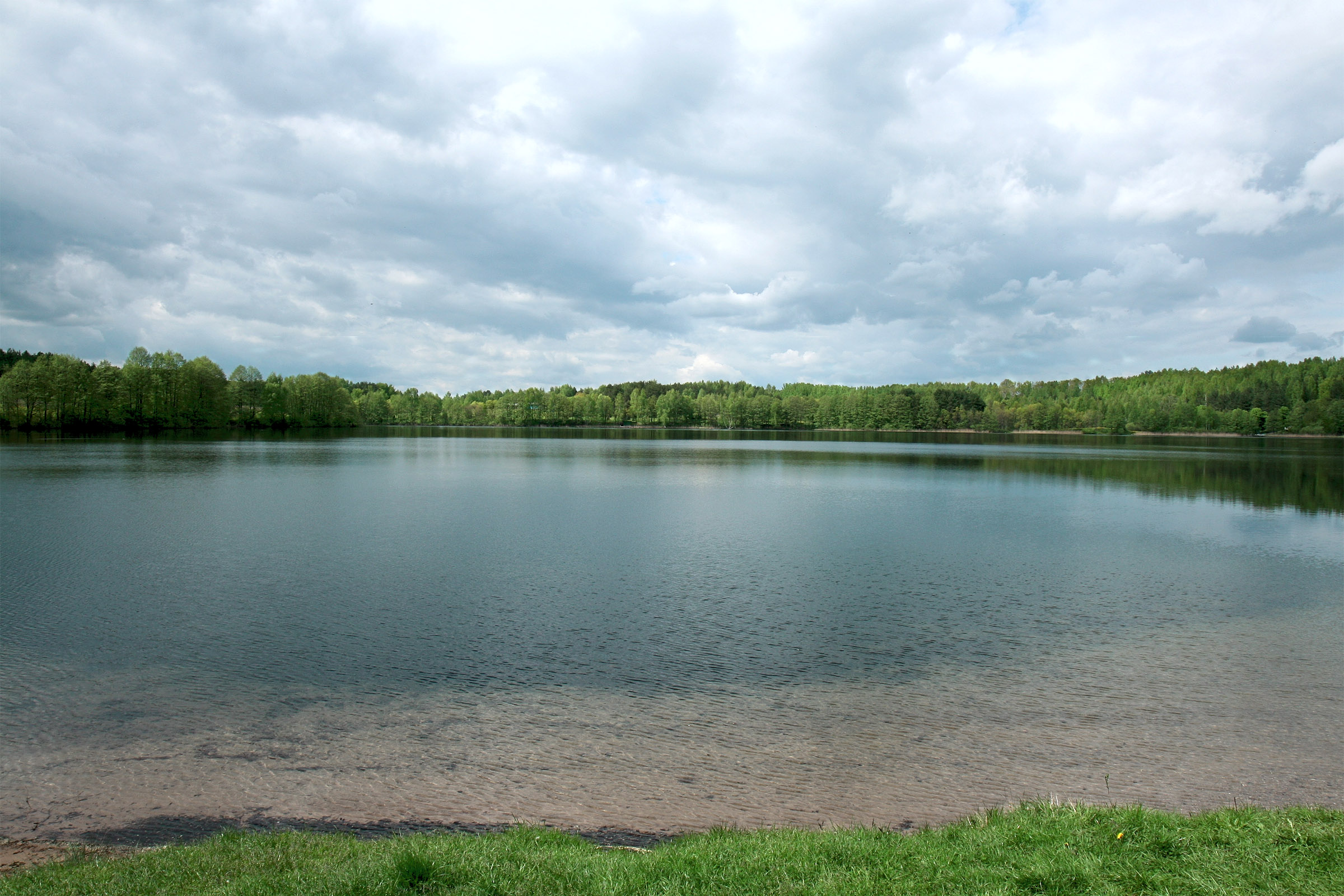 Rudakova Lake, Belarus